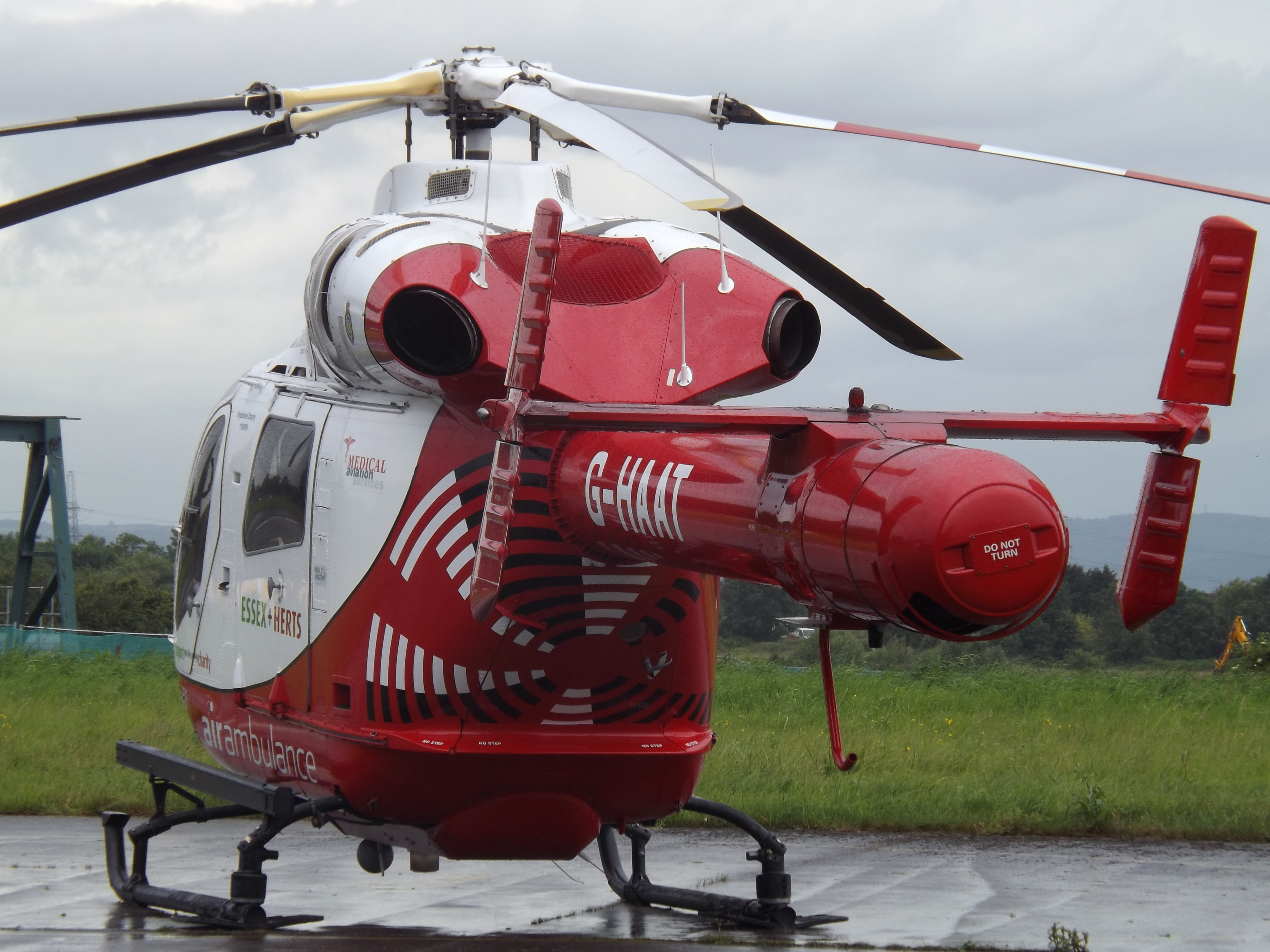 At Gloucestershire Airport.